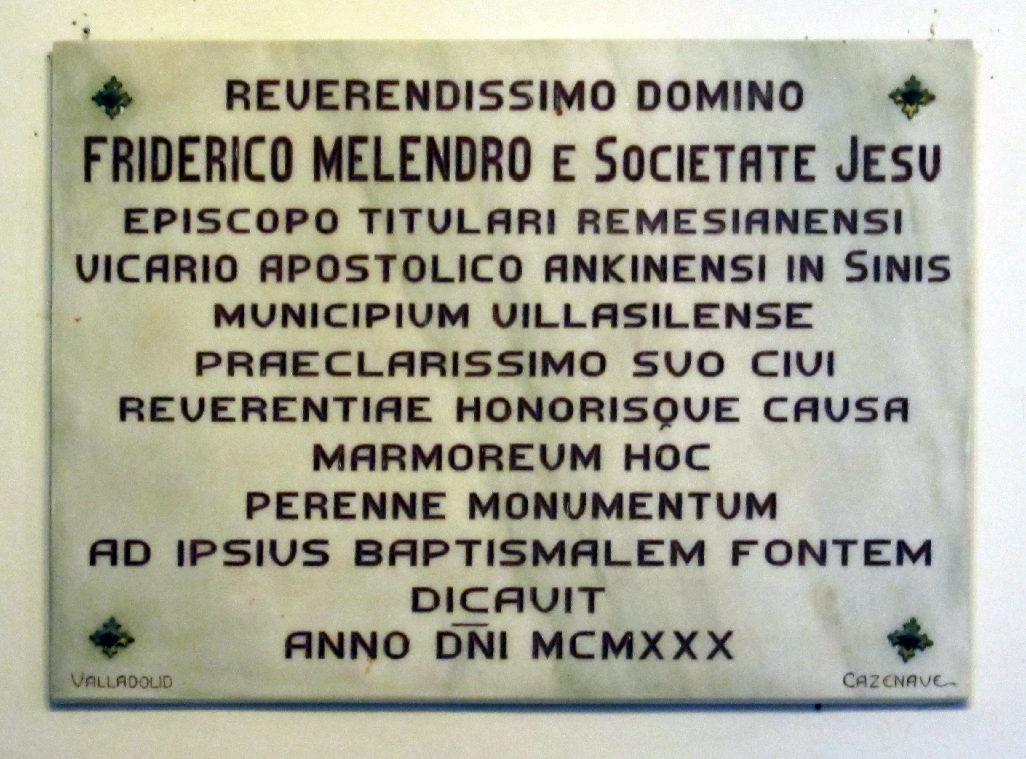 Conmemorative plaque in the Church of San Pelayo of Villasila de Valdavia dedicated to Monsignor Frederick Melendro.